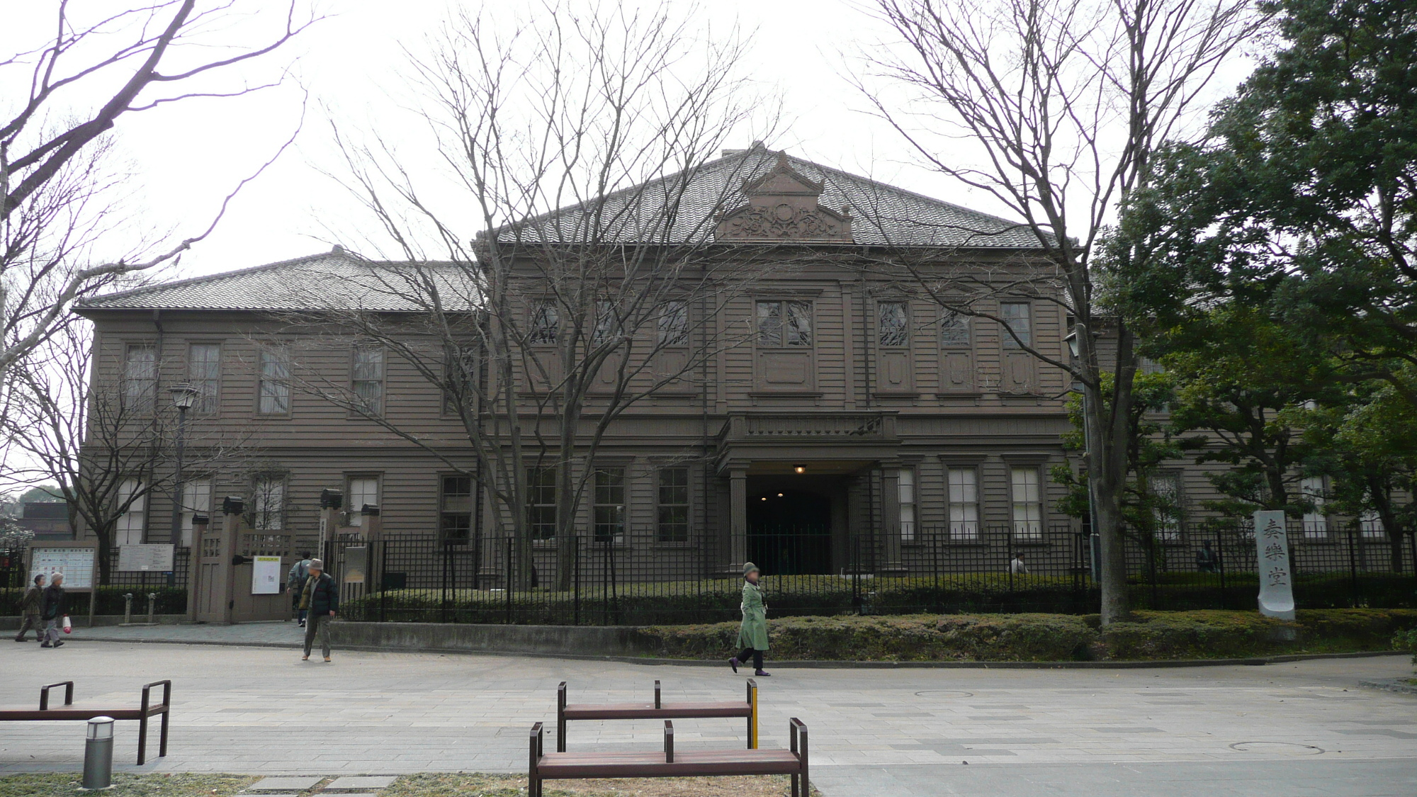 Sogakudo Concert Hall,The oldest Tokyo National University of Fine Arts and Music.